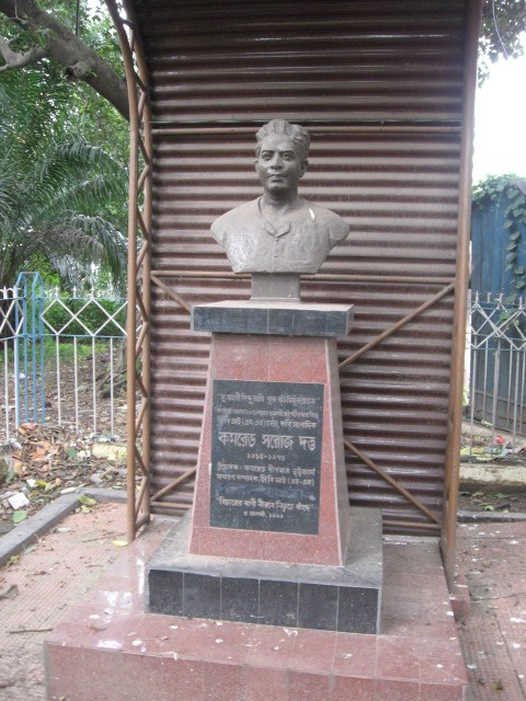 Saroj Dutta statue, Esplanade, Kolkata.